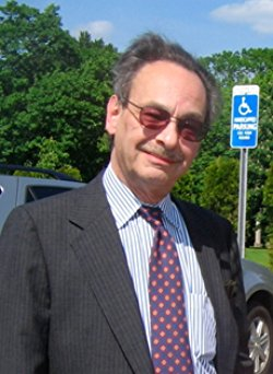 Picture of author James F. Monaco